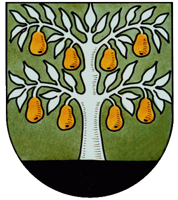 Coat of arms of Altendiez